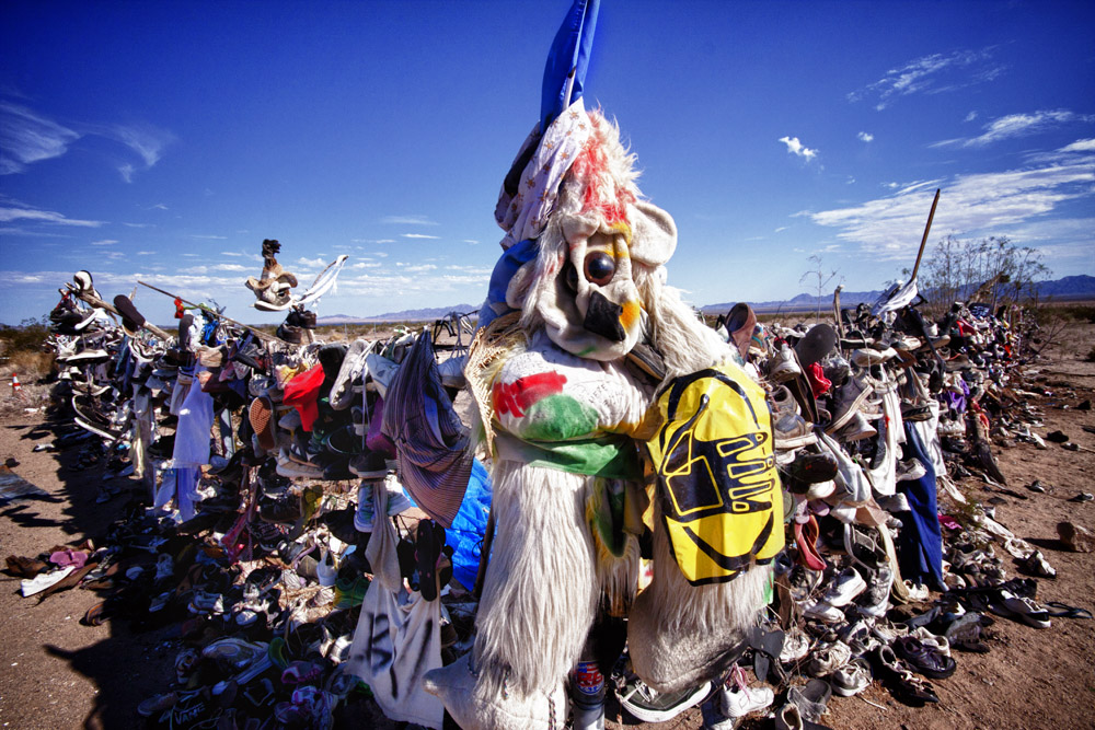 This shot was taken of the Shoe Fence located on Highway 62 near Rice, California in the Twentynine Palms-Morongo Valley.